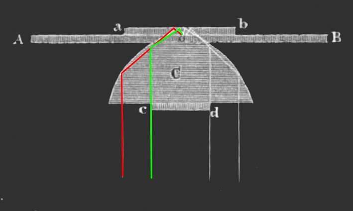 Scheme of the microscopic darkfield illumination with Wenhams glas paraboloid which was described in Wenham, 1856. Red and green lines are added to allow better recognition of the beam path shown, as it was assumed by Wenham.